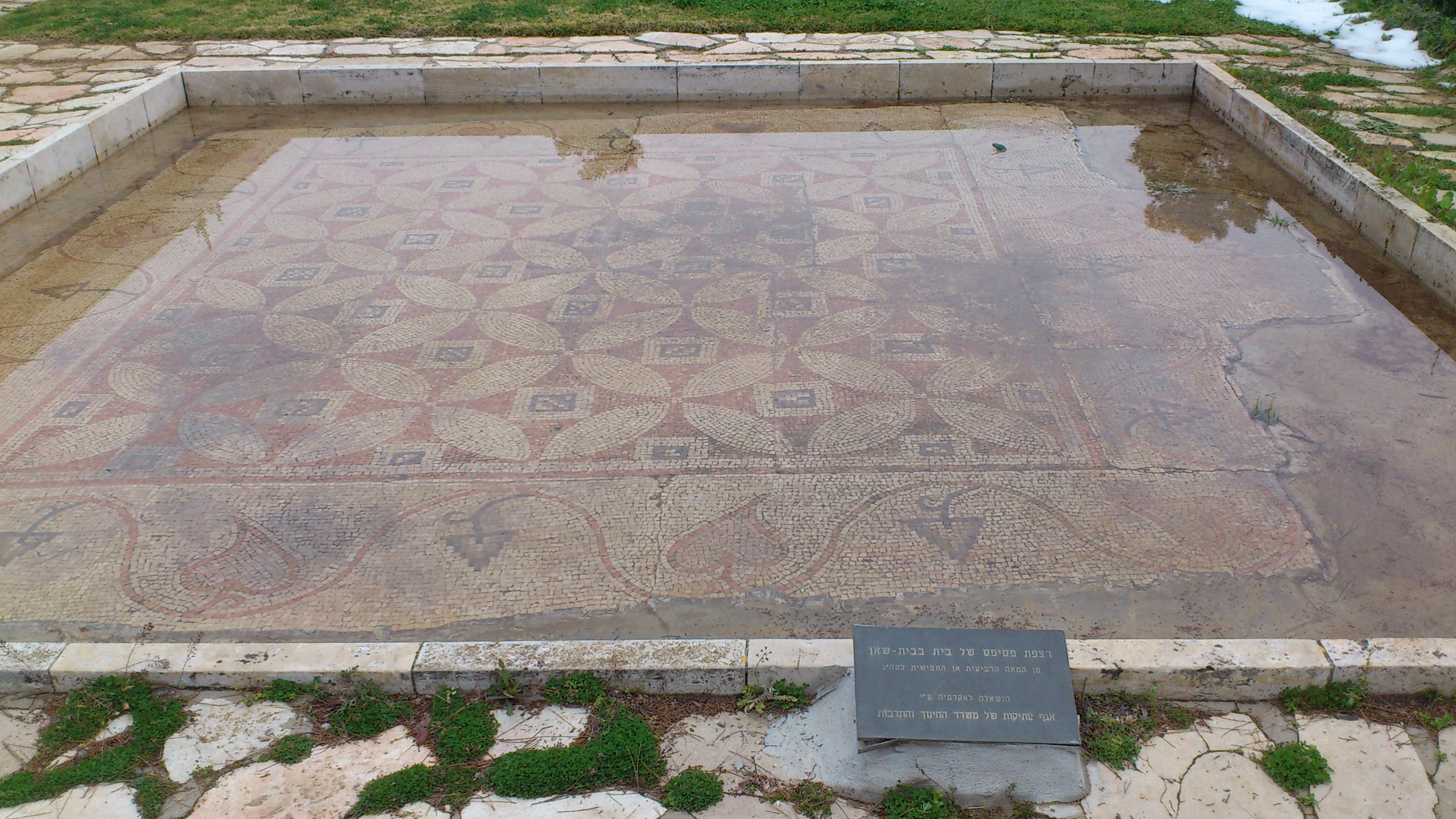 Academy of the Hebrew Language - 2.jpg